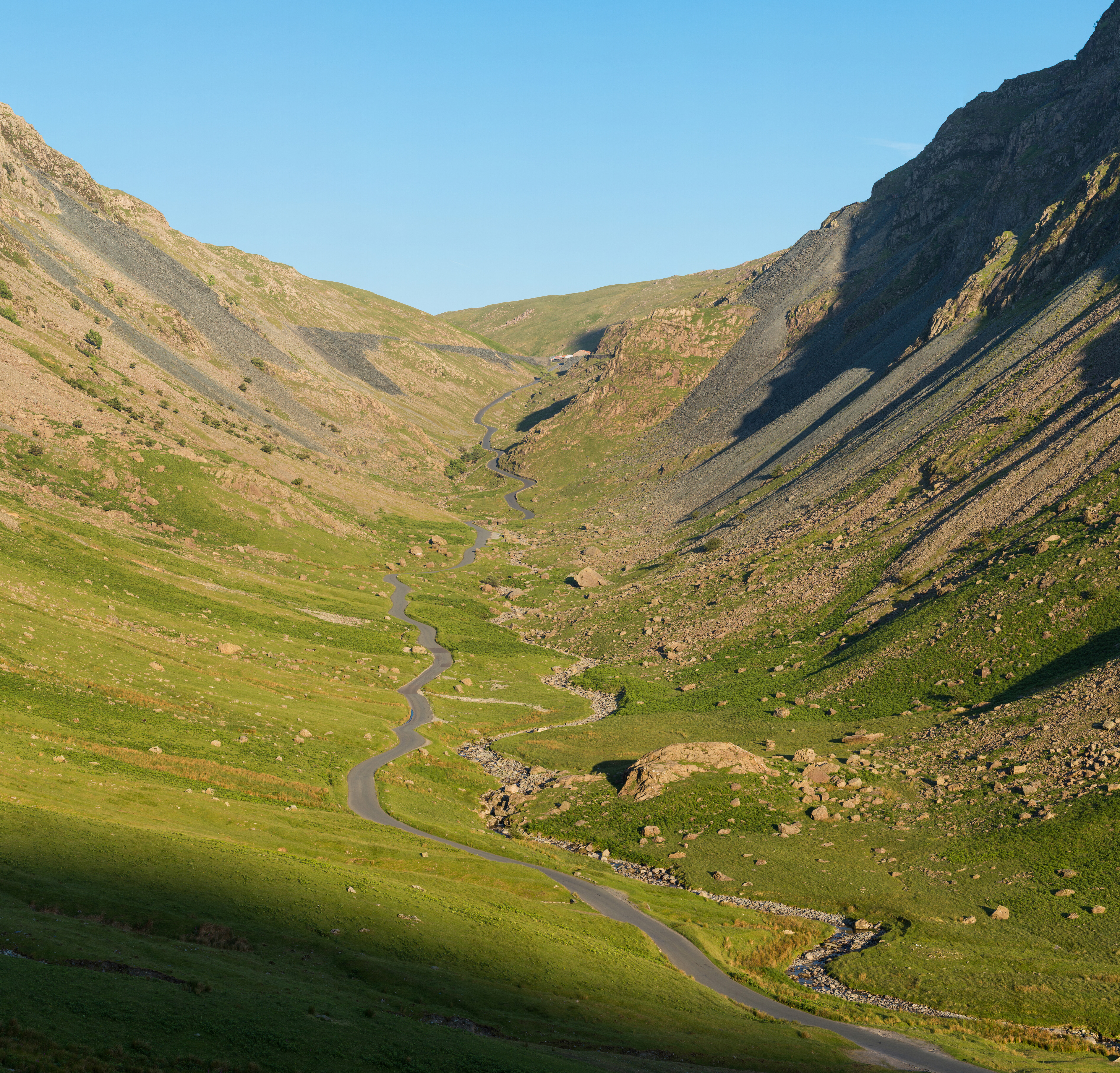 Honister Pass as viewed looking south-east towards the slate mine at the top.